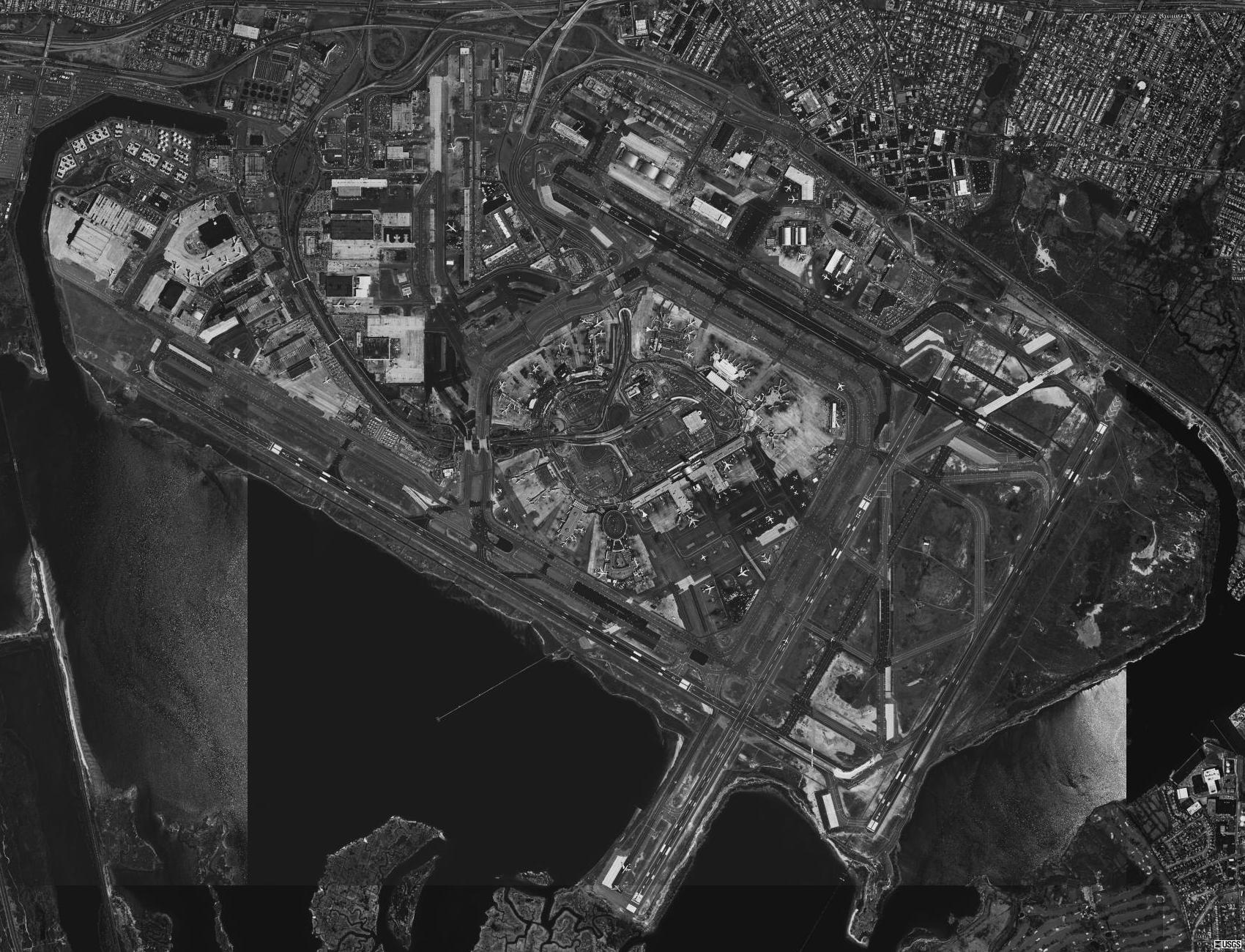 Aerial image of John F. Kennedy International Airport in Queens, New York, United States.